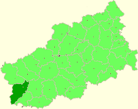 Tver Oblast map by Al Silonov